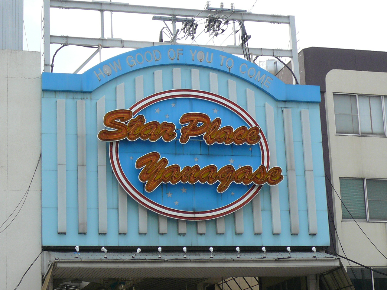 Entrance to West Yanagase. Taken in July 2007.